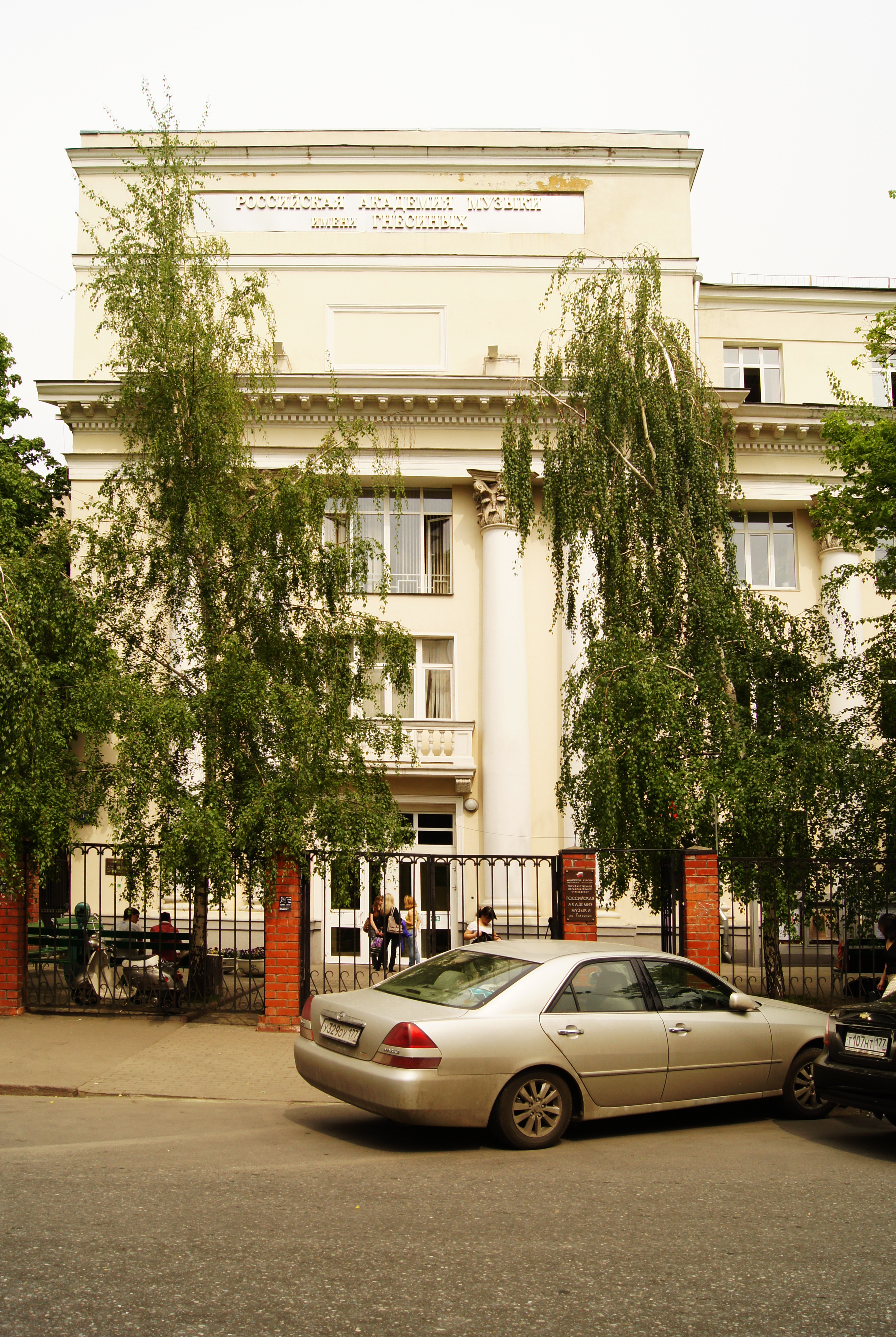 Povarskaya Street Moscow 32